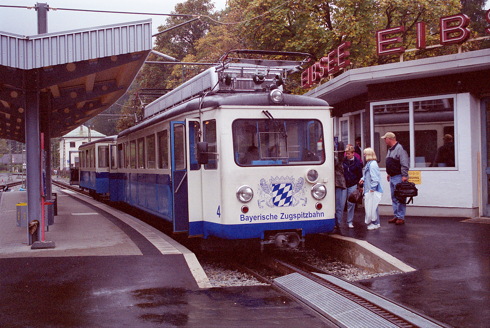 train of the "Zugspitzbahn" at the trainstation Eibsee own picture, taken in 2002